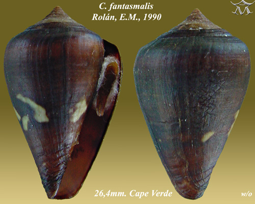 Conus fantasmalis 1